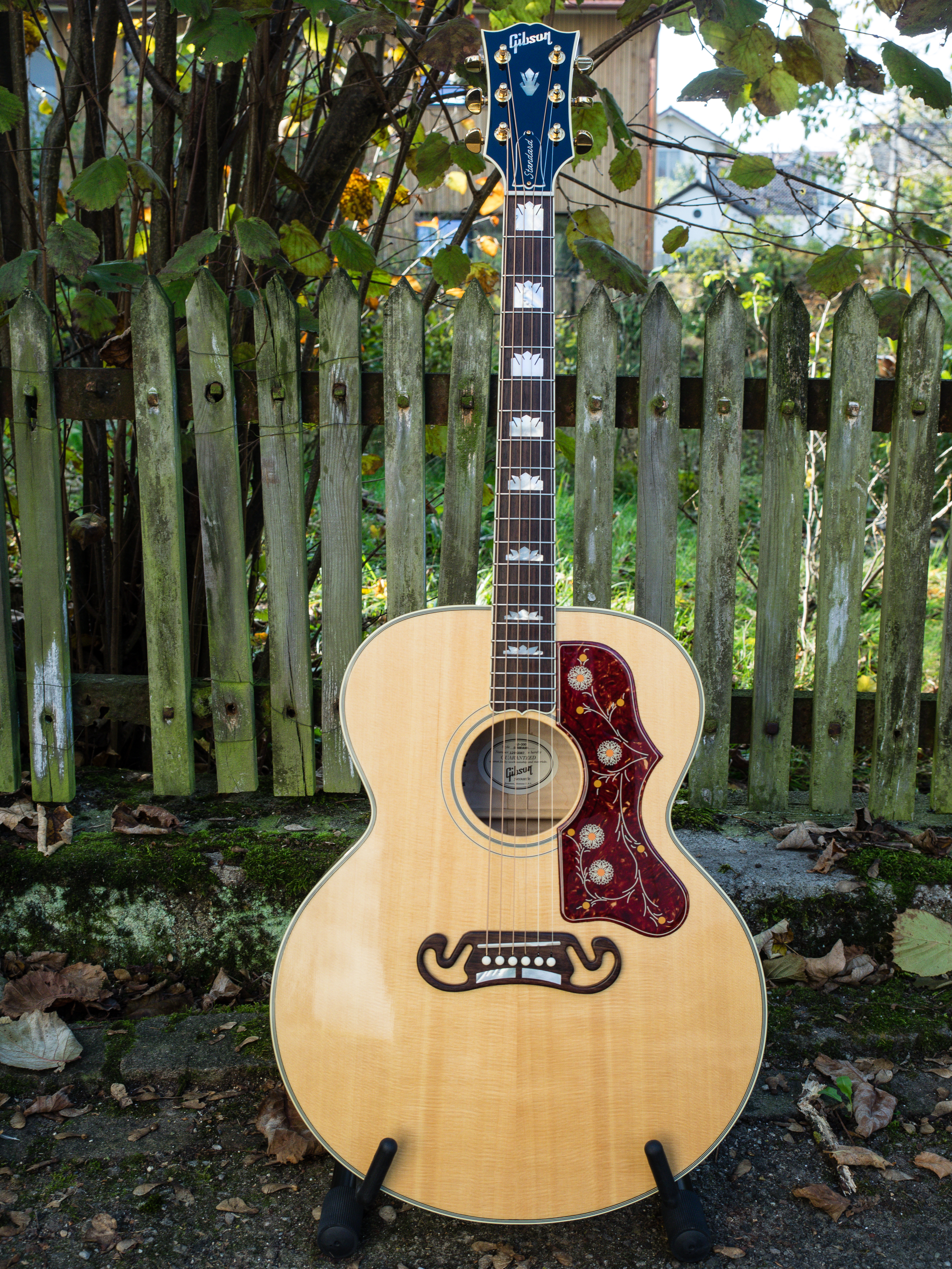 Gibson SJ-200 Standard Acoustic Guitar, Super Jumbo, Antique Natural Finish